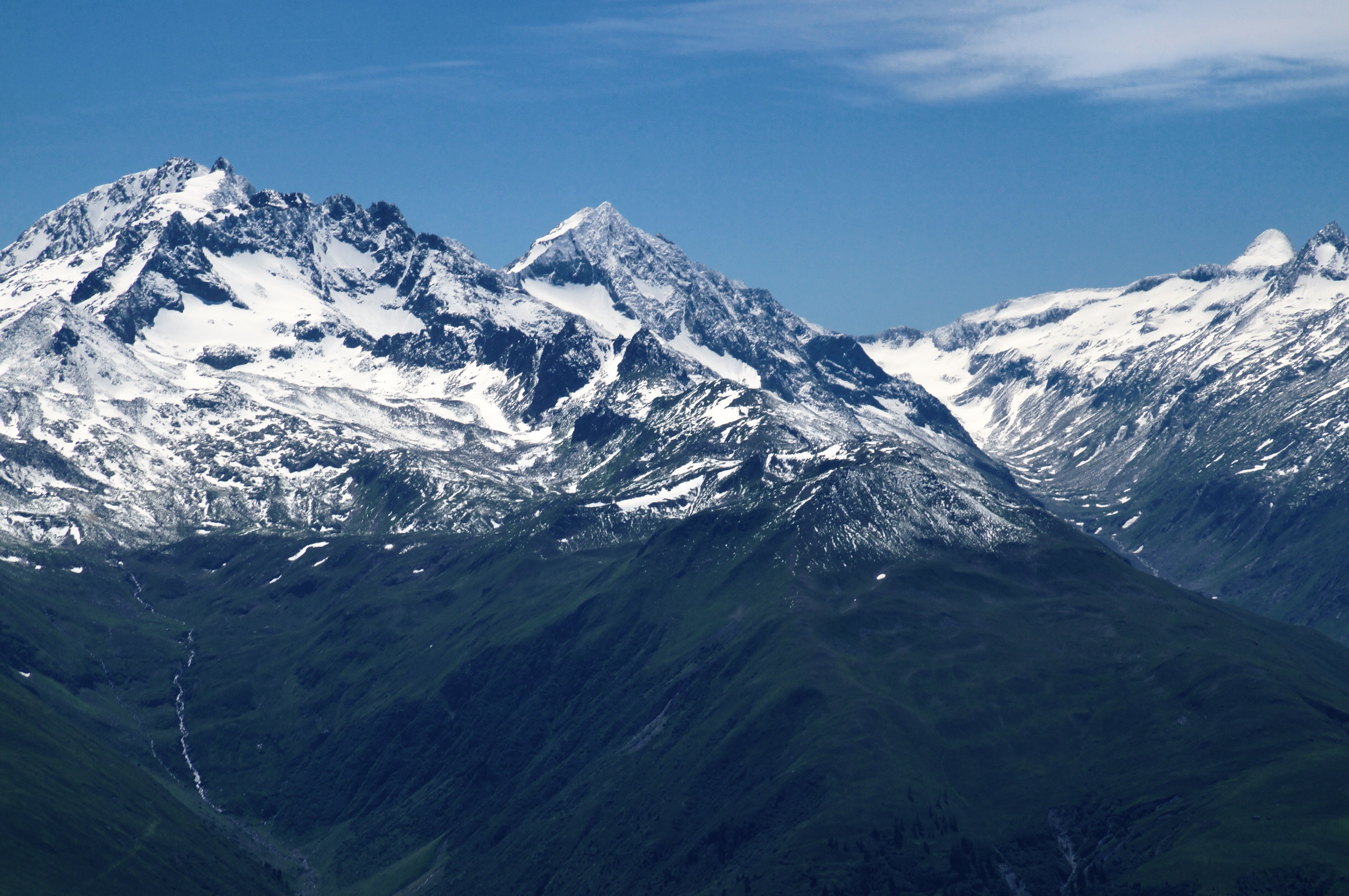 Mountains of Gotthard Massif in the Western part of Grisons with Piz Vatgira (2983m) in the center of the image.